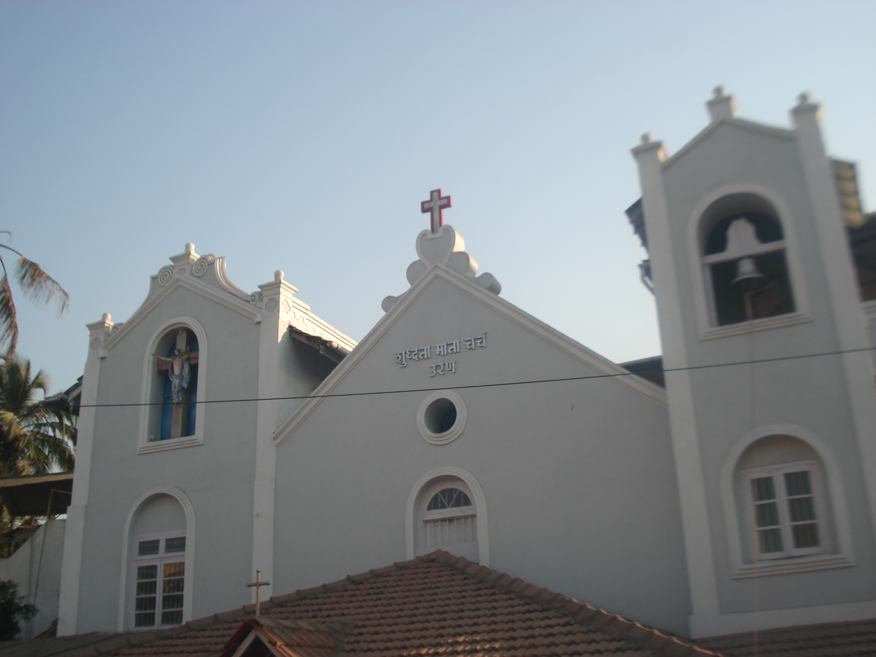 Photo of the Shudhata Mata Church in Uran to accompany associated script under 'Places of Worship' heading